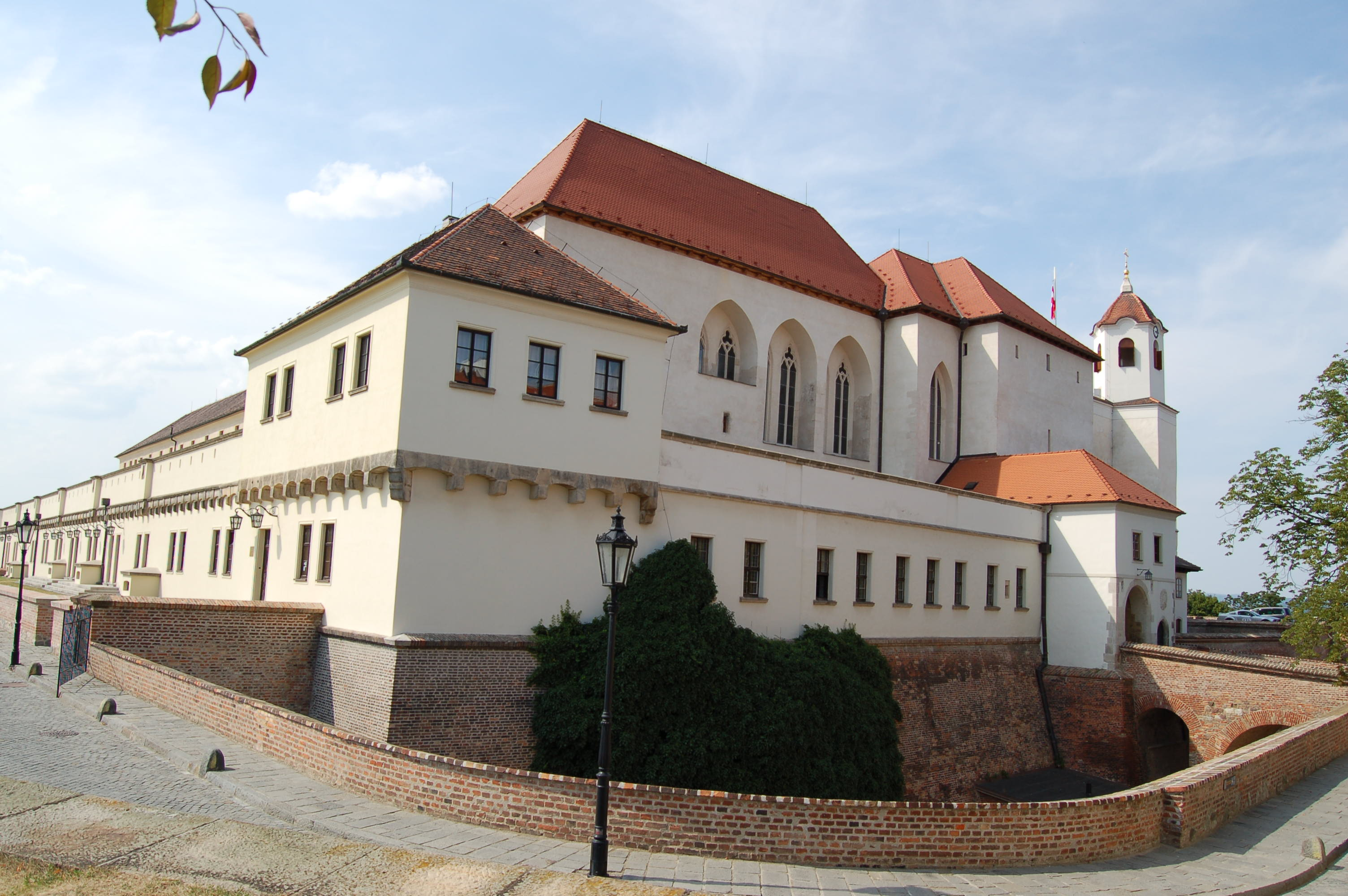 Spilberk Castle, Brno.